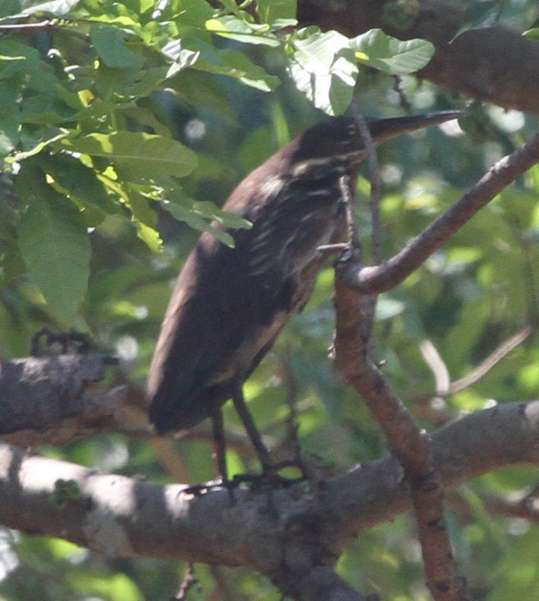 A typically secretive Black Bittern - a medium sized waterbird - perched in dense cover near the edge of a flooded Lake Iralalaro